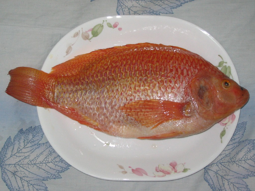 Tilapia as a food dish.